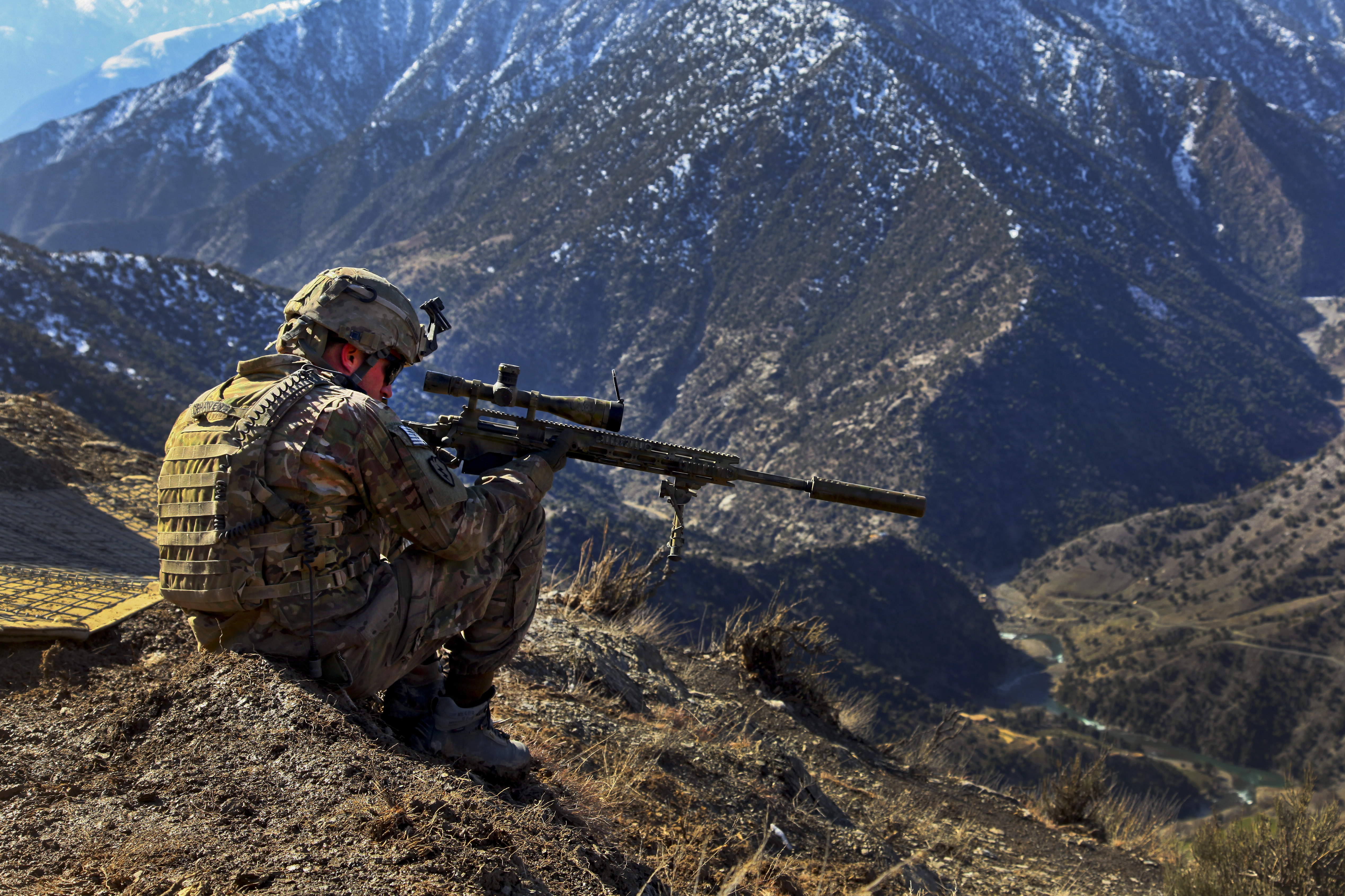 U.S. Army Cpl. Kevin Dehaven, Sniper Team Leader, Headquarters and Headquarters Company, 2nd Battalion, 27th Infantry Regiment, 3rd Brigade Combat Team, 25th Infantry Division, provides security, at Observation Post Mangol, Feb. 8, 2012, in the Nari district, Kunar province, Afghanistan.